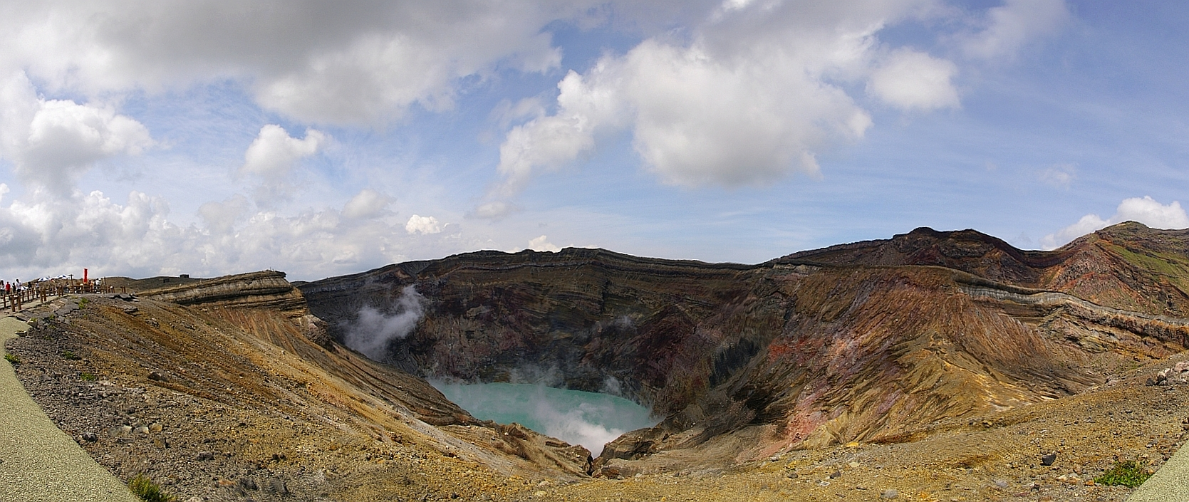 The Nakadake Crater in the Aso Caldera, the only volcano in the world visible to visitors